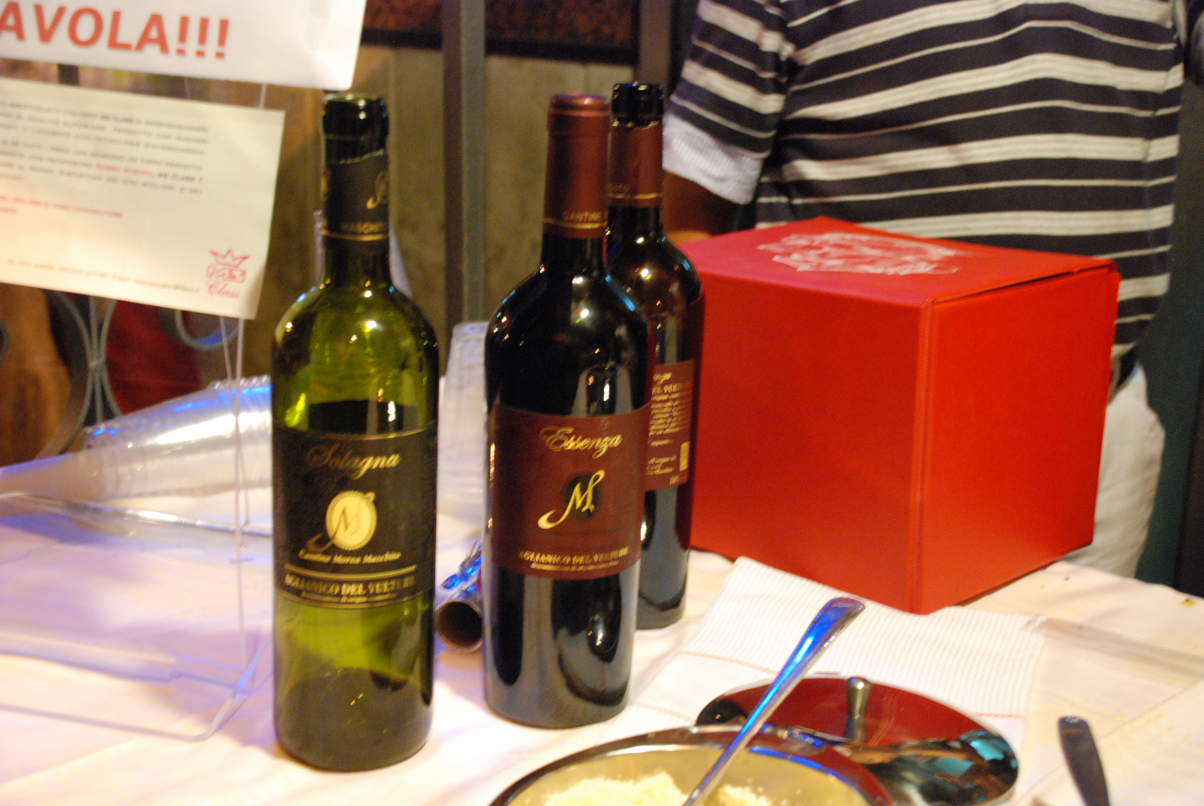 Aglianico del Vulture wine bottles